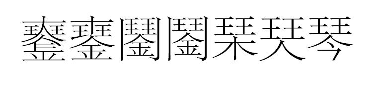 Own picture.